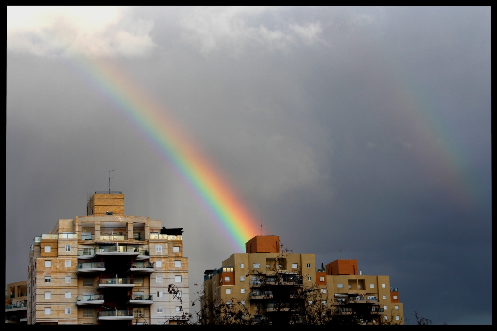 Geography of Israel